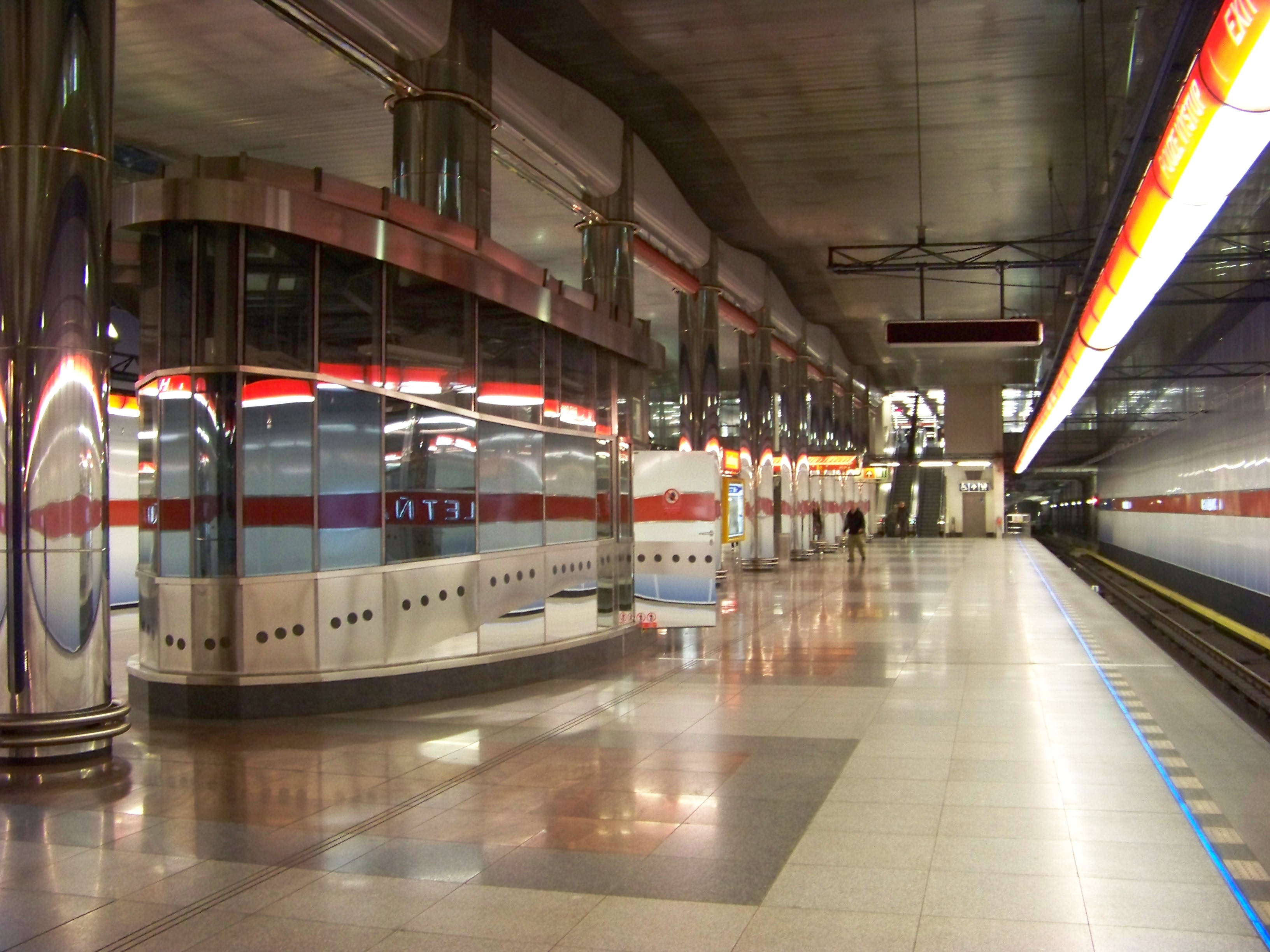 Prague-Letňany, Czech Republic. Metro station Letňany.